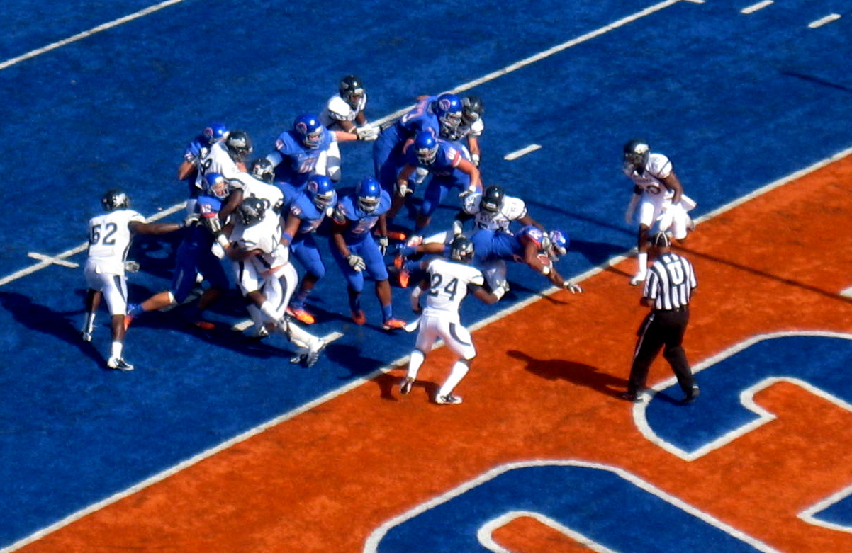 Doug Martin diving into the endzone for a touchdown during the second quarter of Boise State's game vs Nevada on October 1, 2011 at Bronco Stadium in Boise, Idaho.